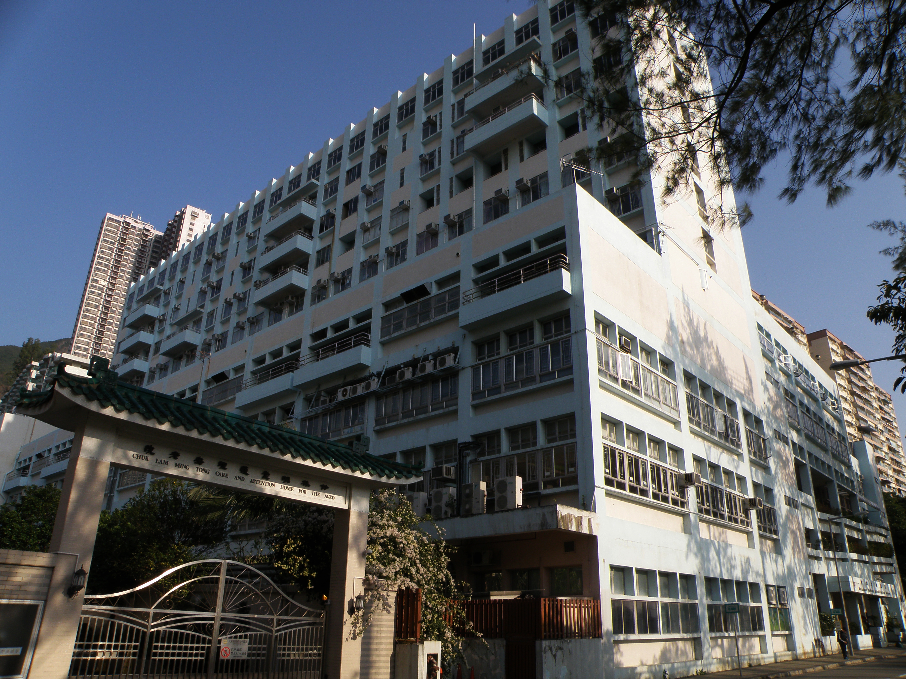 MacLehose Medical Rehabilitation Centre in Pok Fu Lam, Hong Kong.